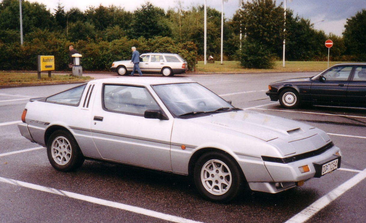 My Mitsubishi Starion at Citti Markt, Lübeck